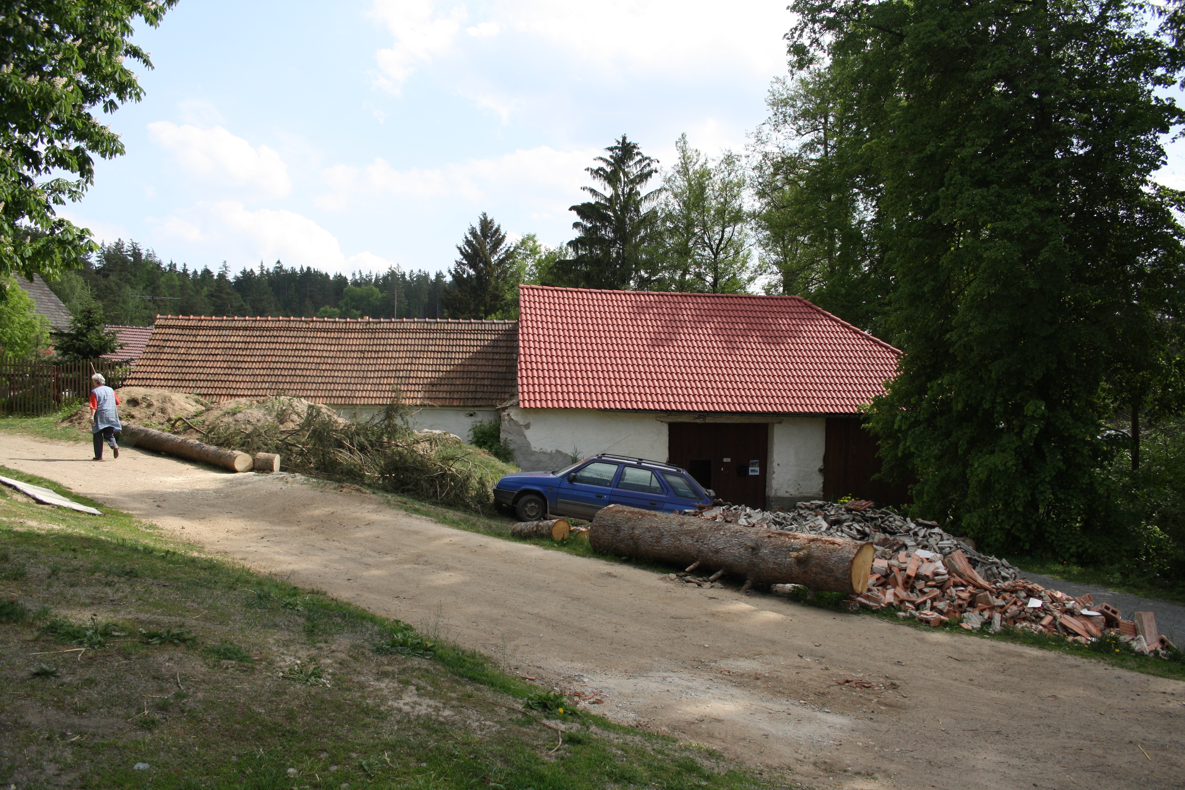 Opatský mill near Valdíkov, Czech Republic.